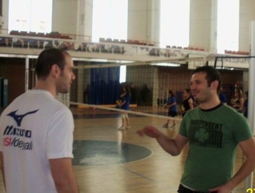 Lorik Ilazi me Donald Suxho